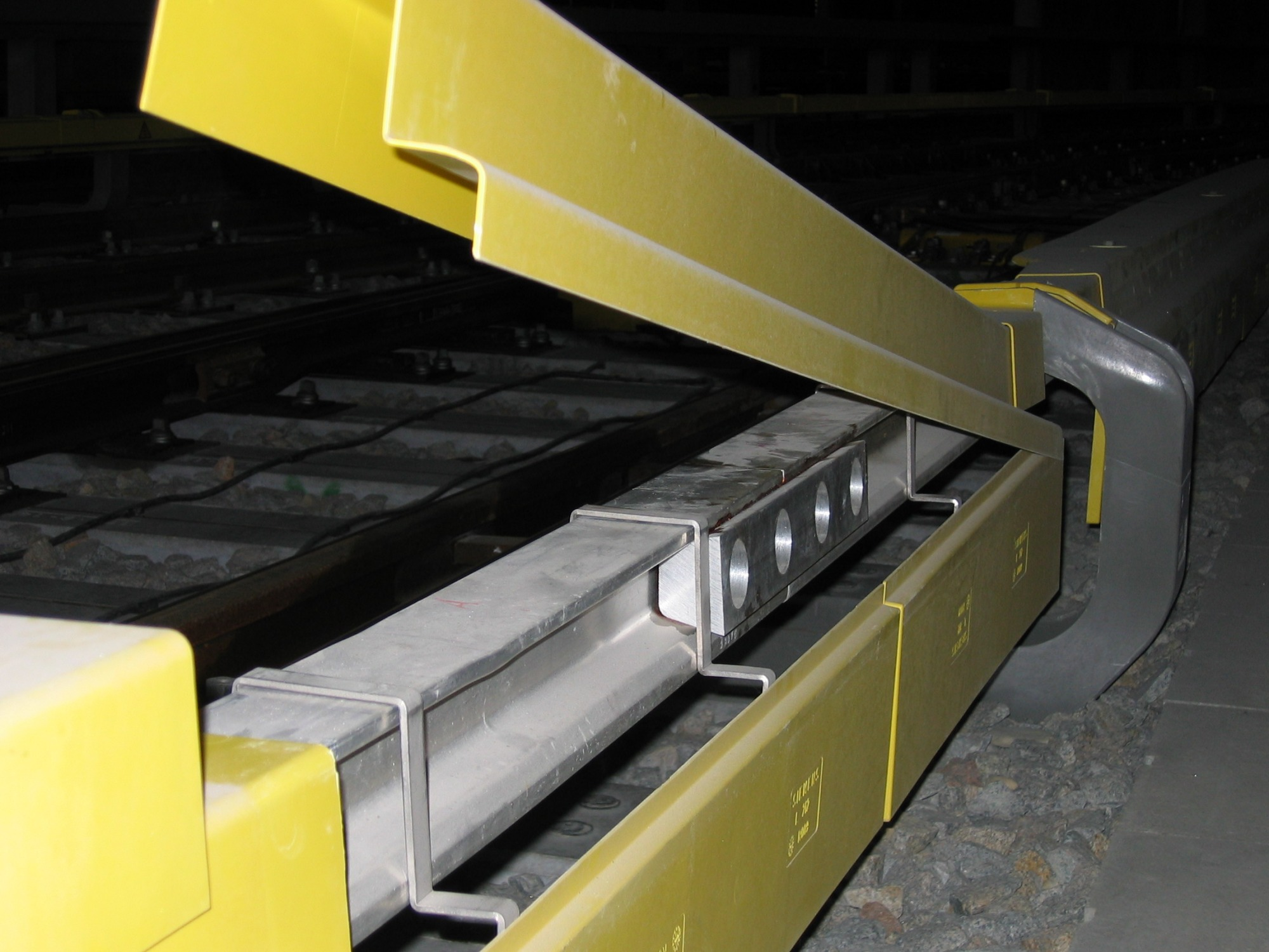 Third rail, a view under the plastic cover provides a connecting link.